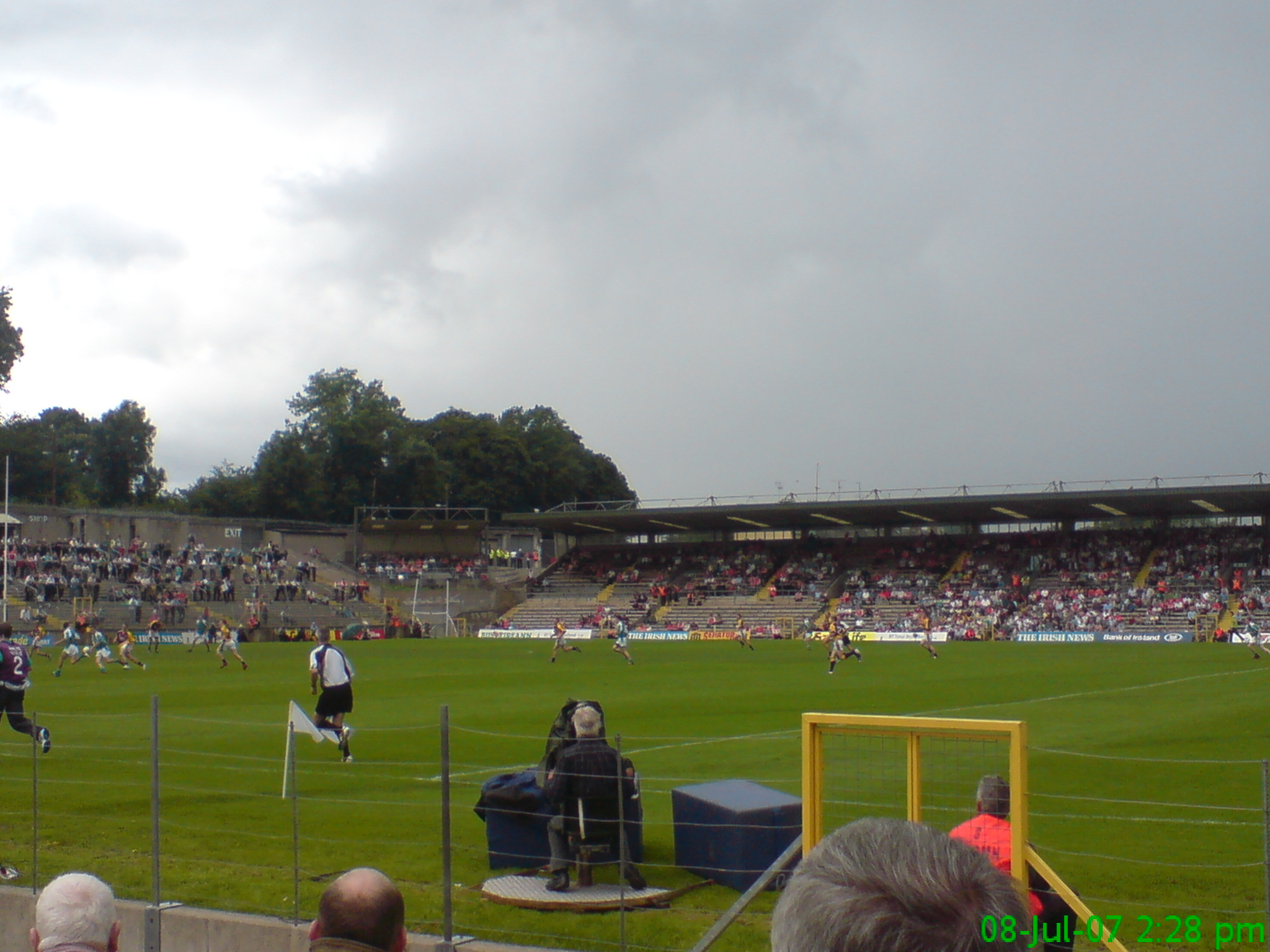 Picture I took myself of St. Tiernach's Park, Clones, Ireland.